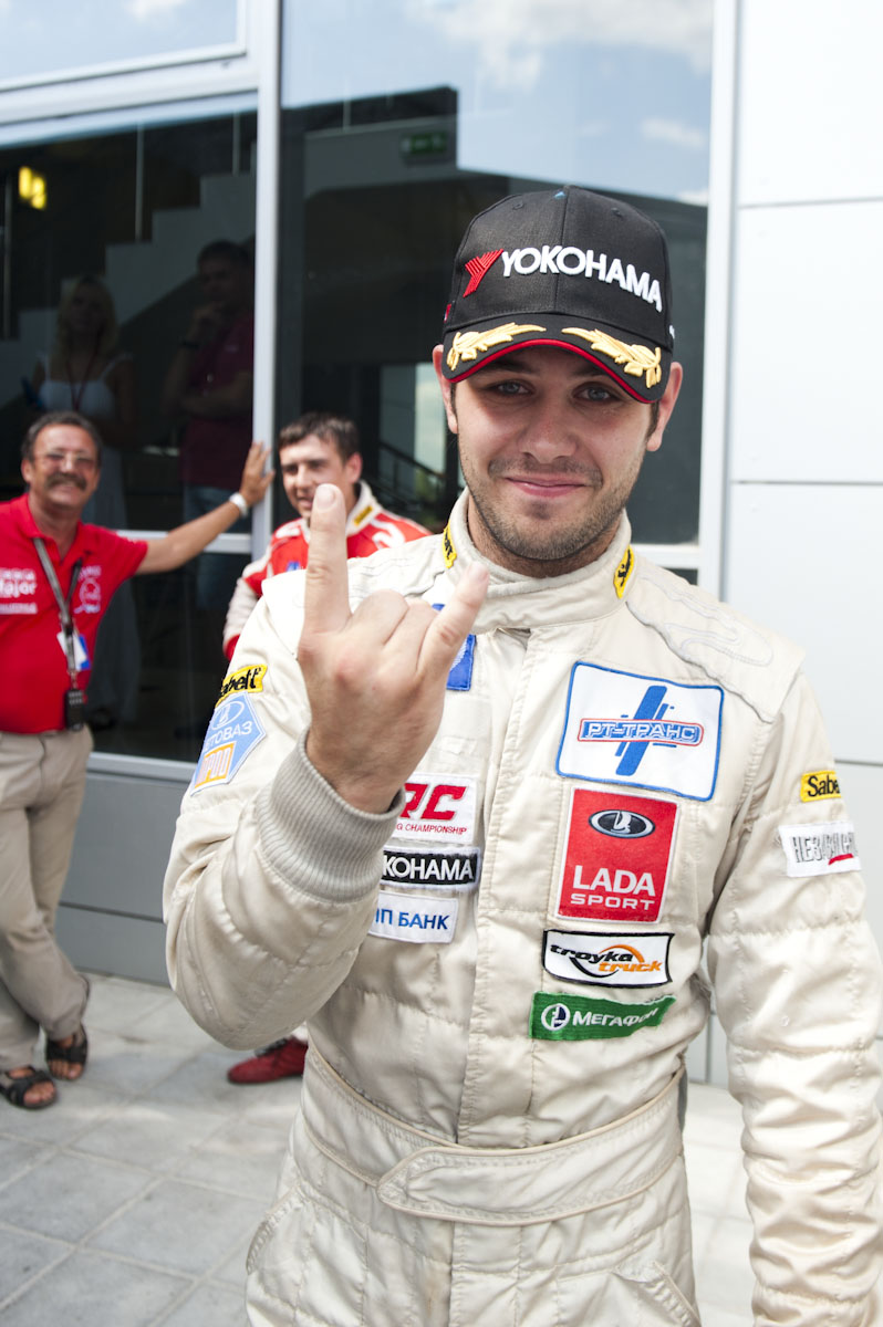 гонки